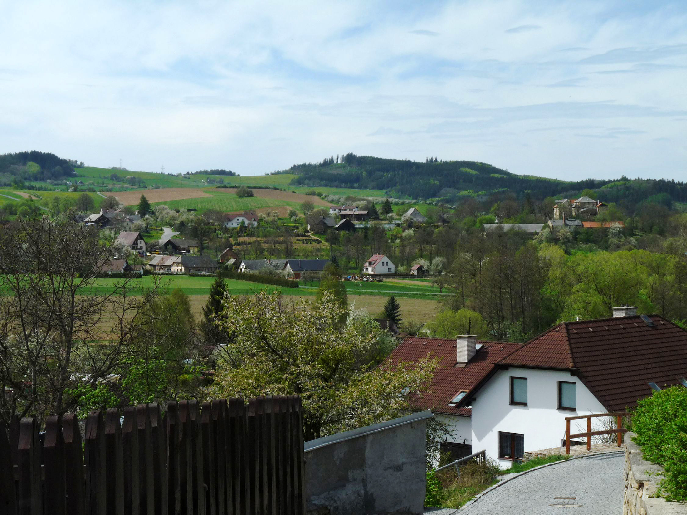 Village of Opálka as seen from the town of Strážov, Klatovy District, Czech Republic.